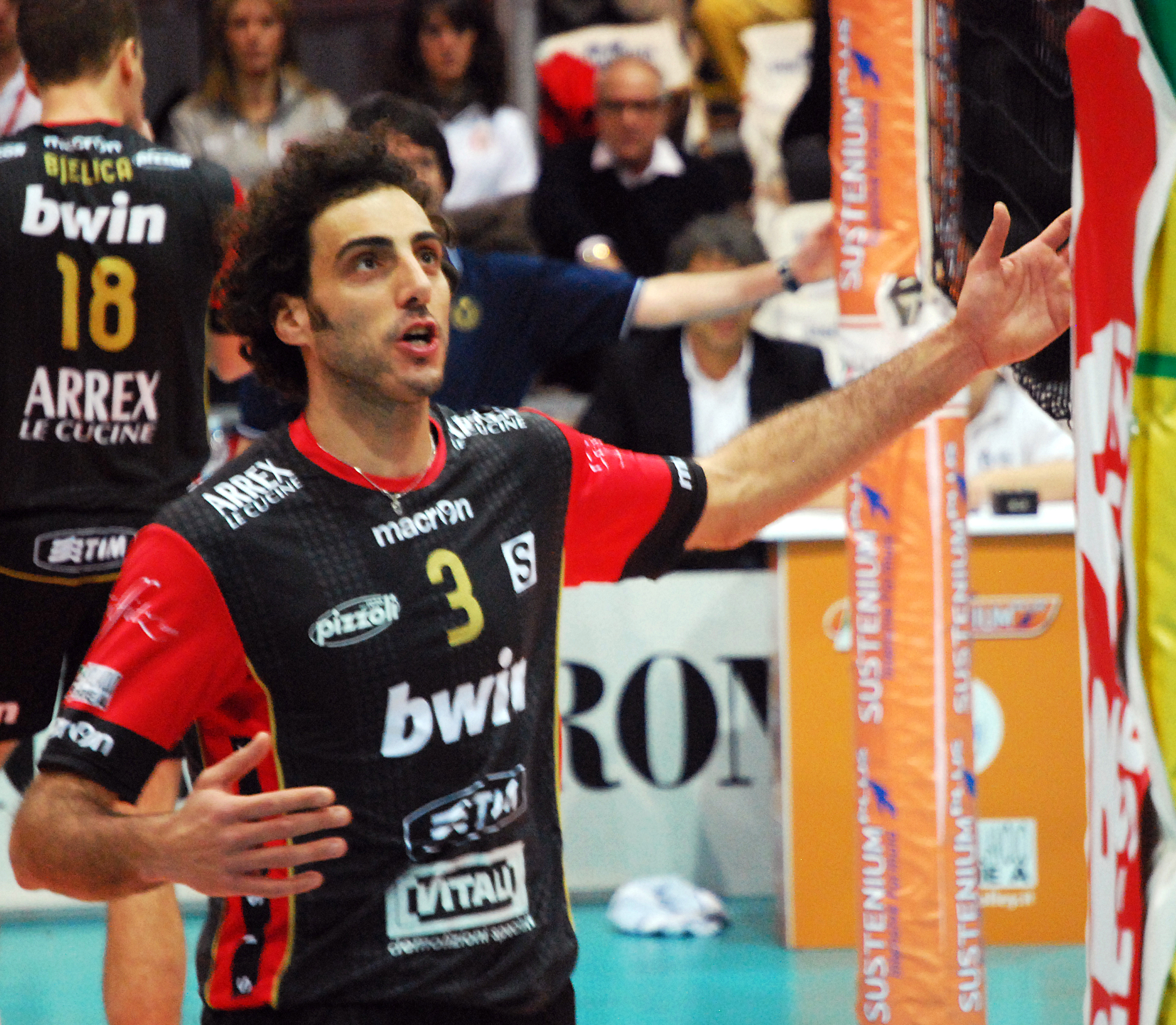 I took this photo during a volleyball match in Piacenza